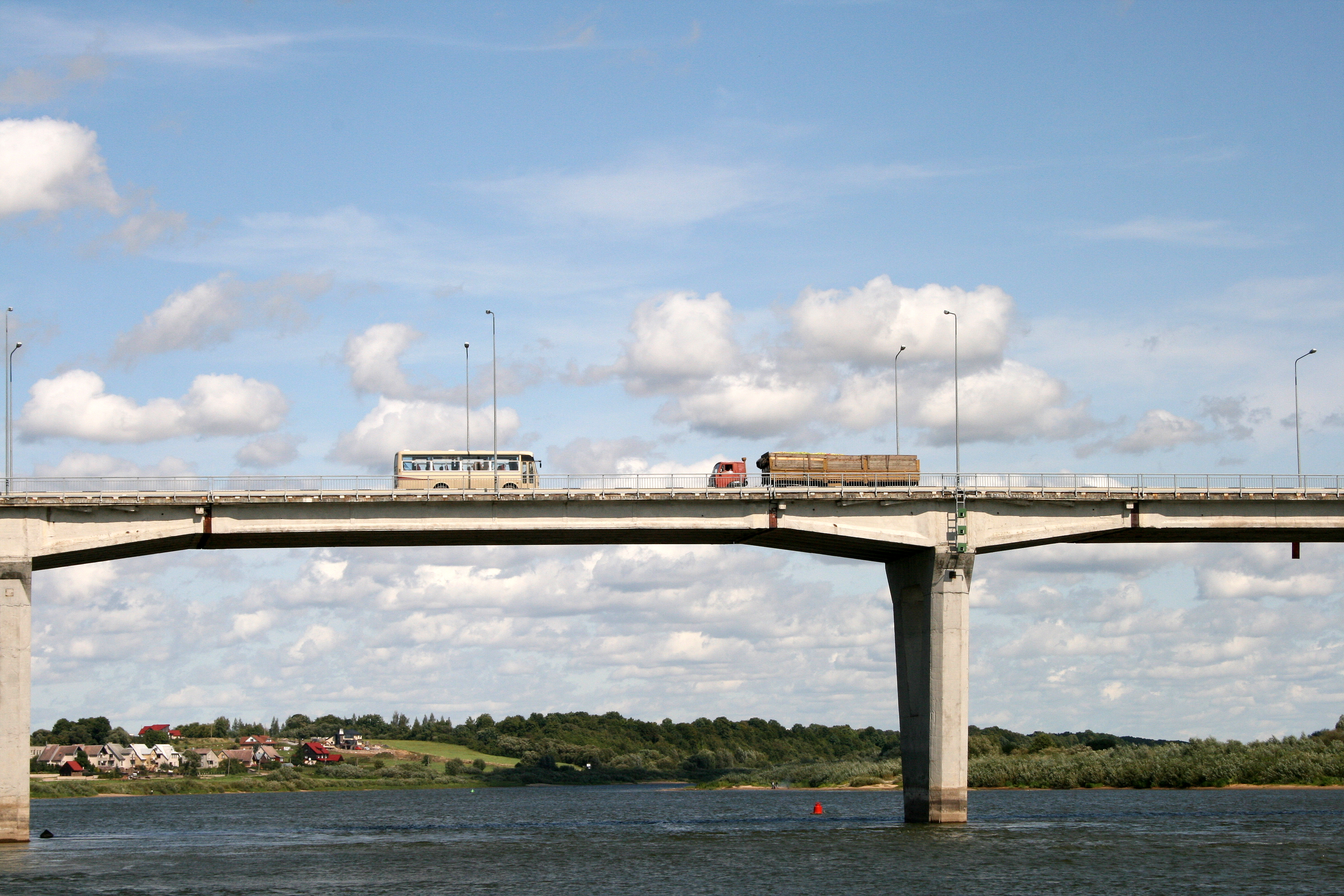 Bridge over Nemunas (by xan)